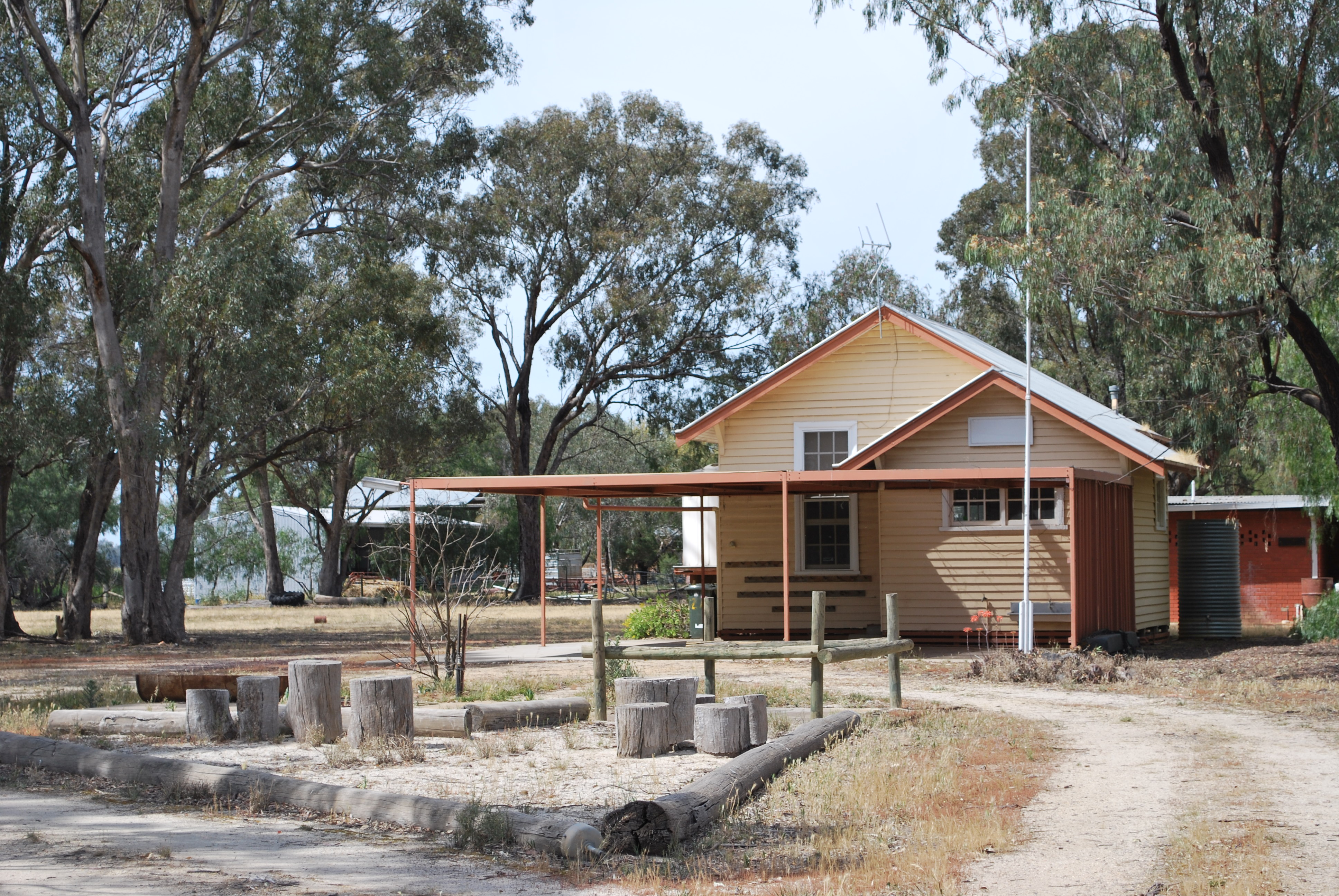 The former site of Mywee Primary School in Mywee, Victoria